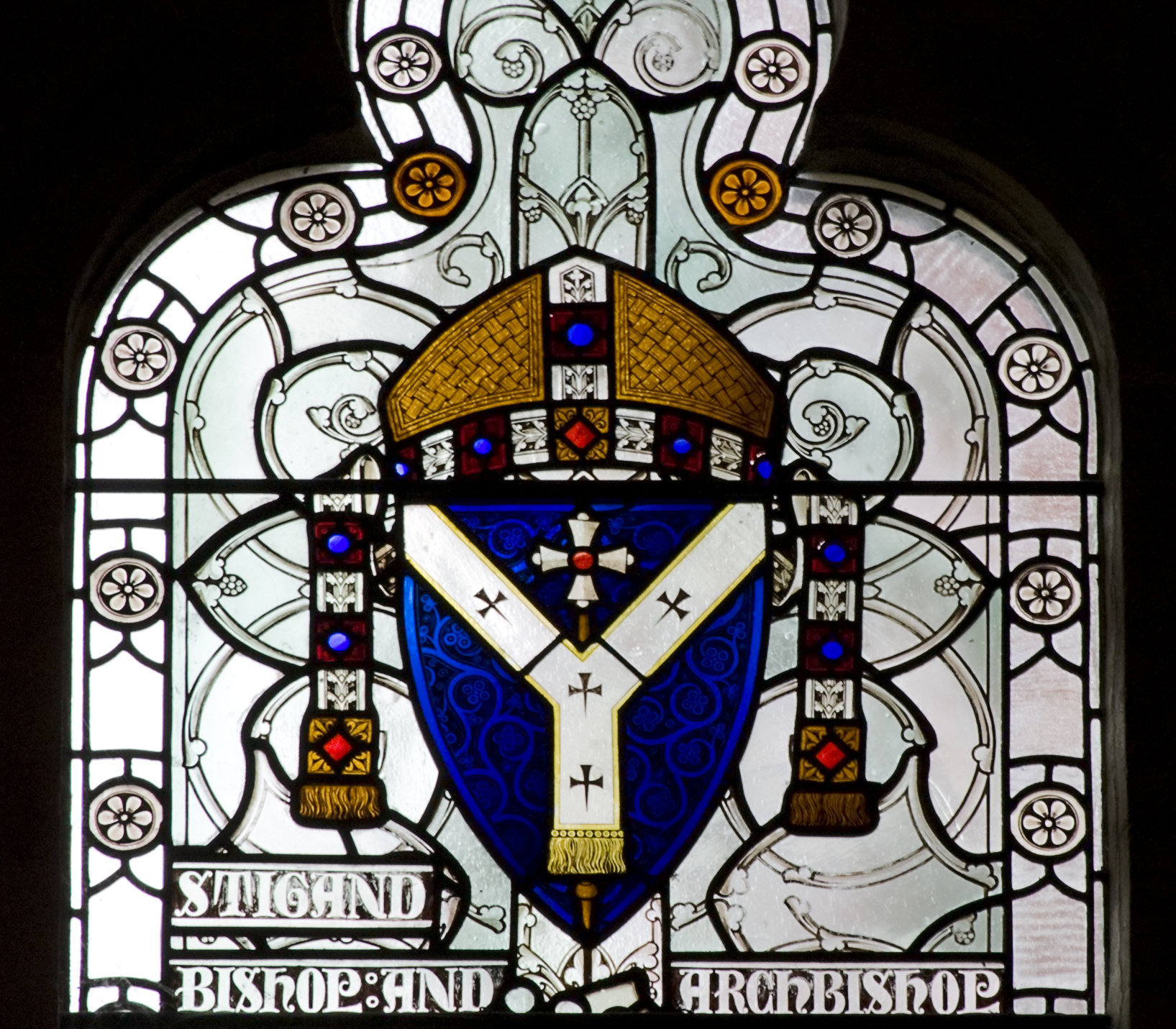 Victorian-era coat of arms for Stigand, Bishop of Winchester and Archbishop of Canterbury, from the Winchester Great Hall windows.